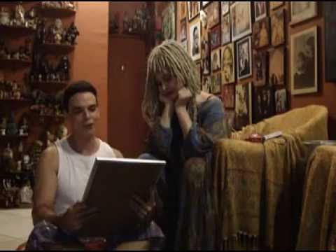 ELKE MARAVILHA E MARCELO MORAES CAETANO